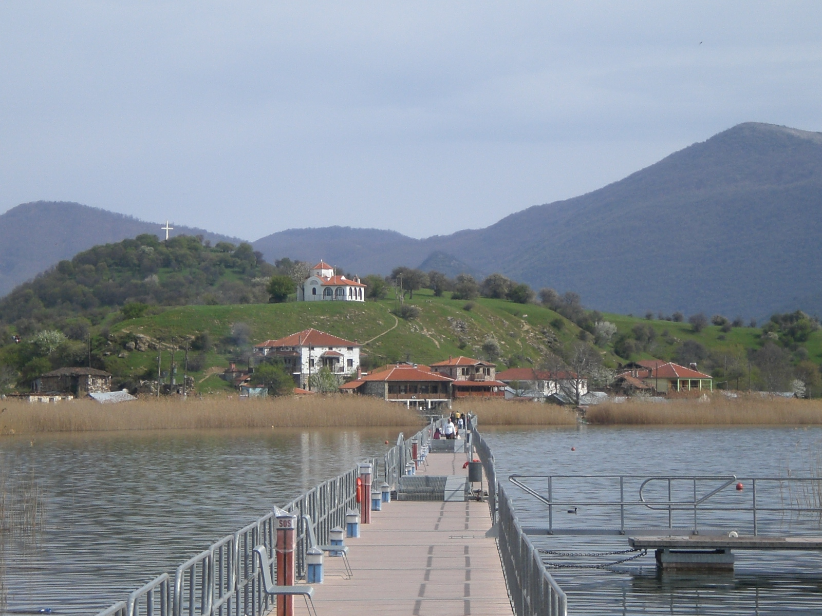 Photo of walkway to the island in Lake Prespa, Greek side